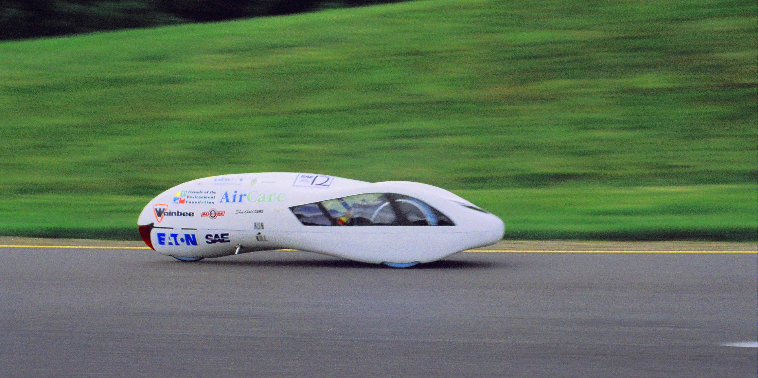 An image of the UBC Supermileage vehicle. The image was taken in 2006 by Charlie Yao. The supermileage vehicle could be improved and used as a velomobile